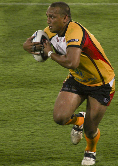 Neville Costigan hits it up